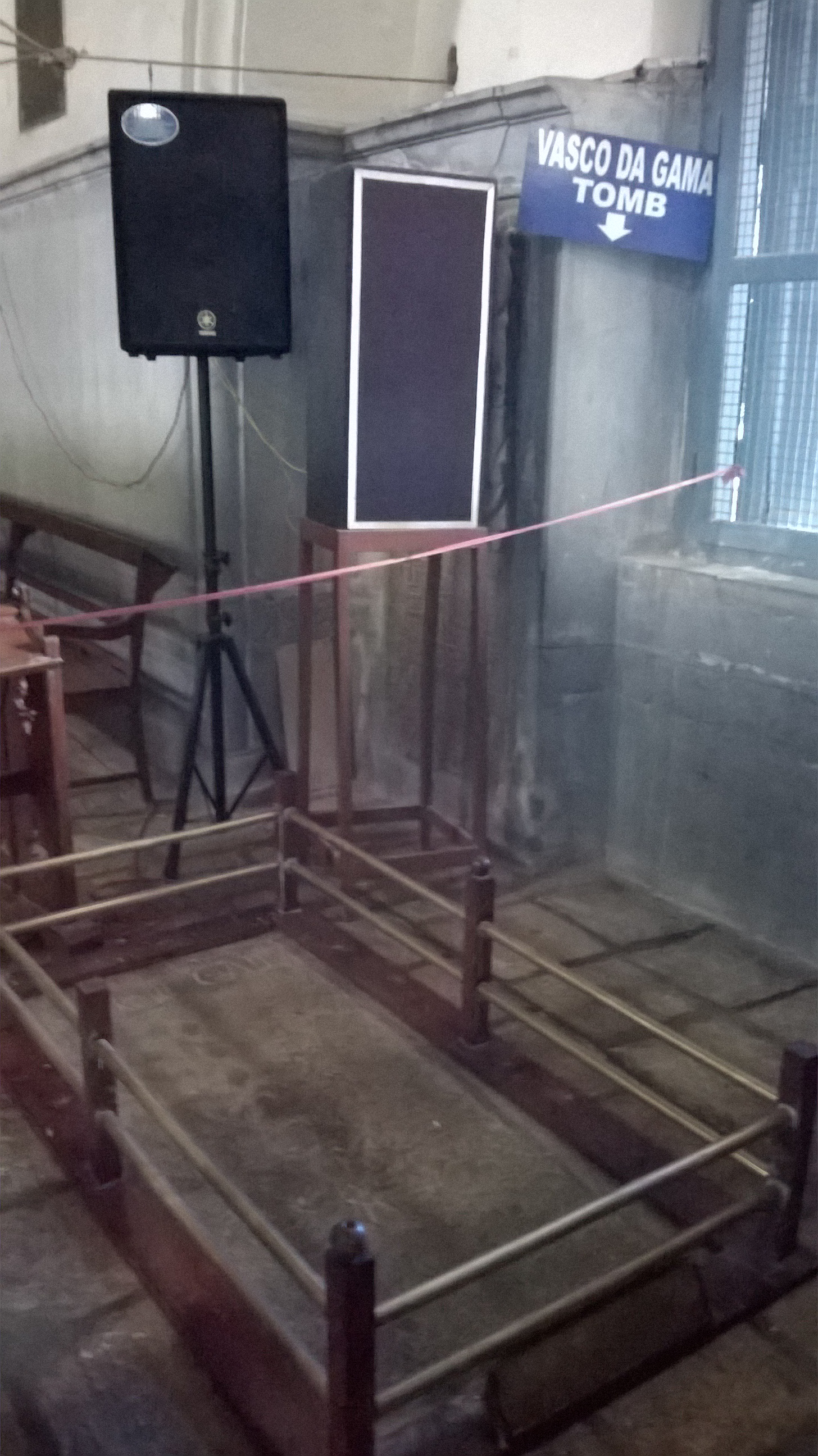 Gama's Tomb in St Francis Church, Kochi